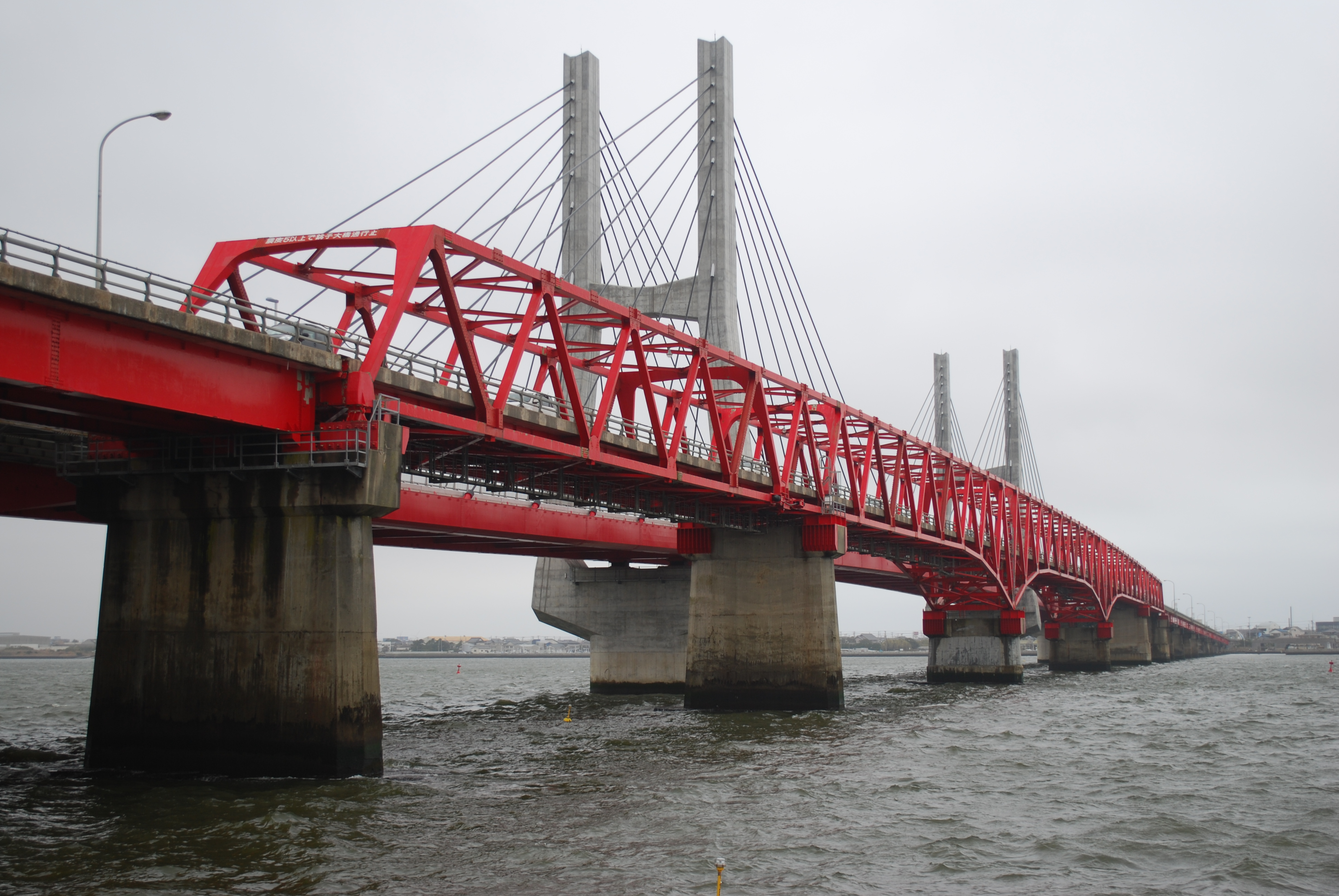 Old Choshi bridge, Choshi, Japan